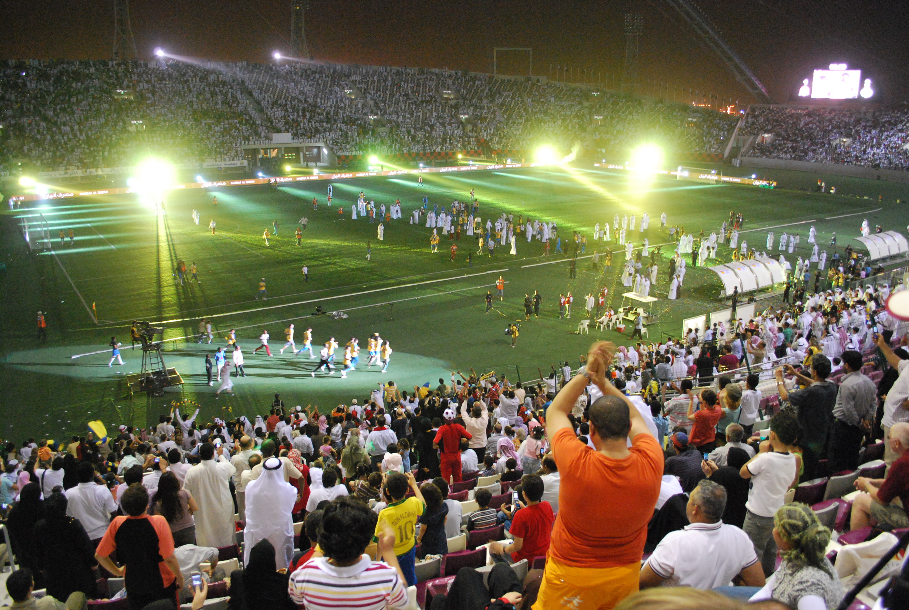 DSC_0518 2009 Emir of Qatar Cup Final.